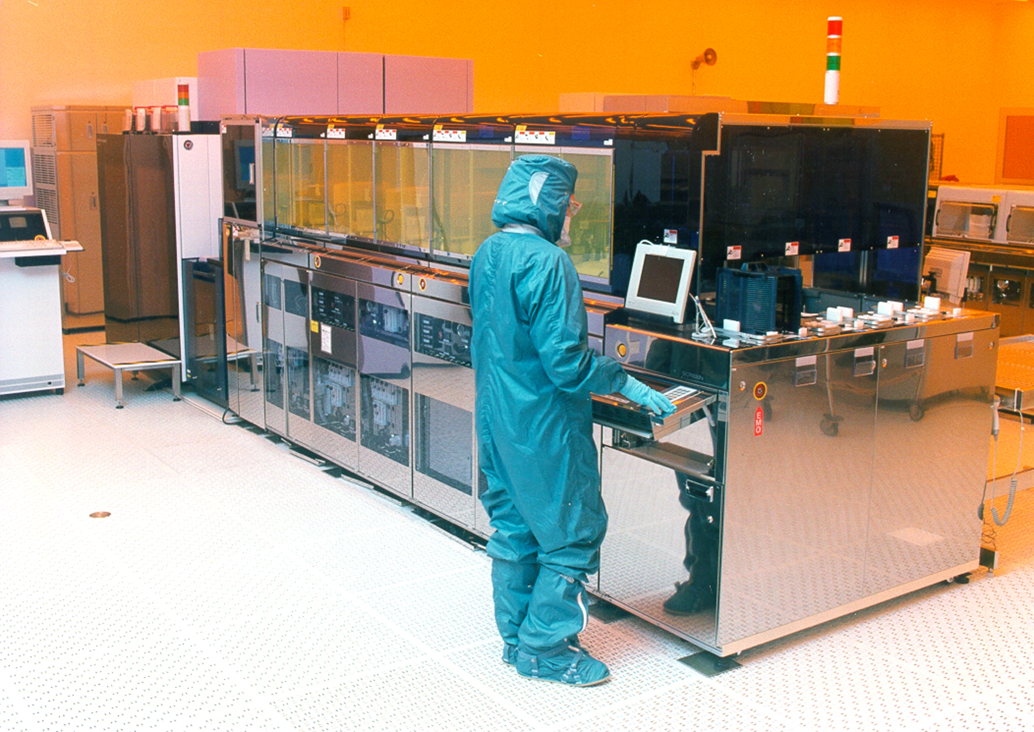 Scientist working on stiched wafers, sensors and other microchip projects in the laboratory.